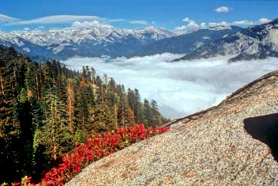 Great Western Divide from Moro Rock